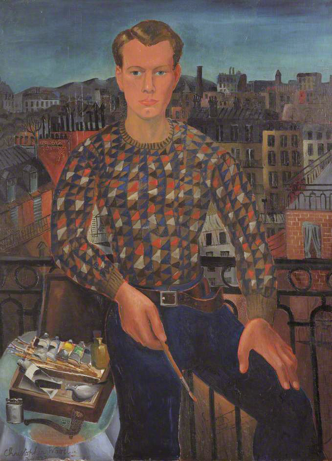 Self portrait oil on canvas 129.5 x 96 cm 1927 signed b.l.